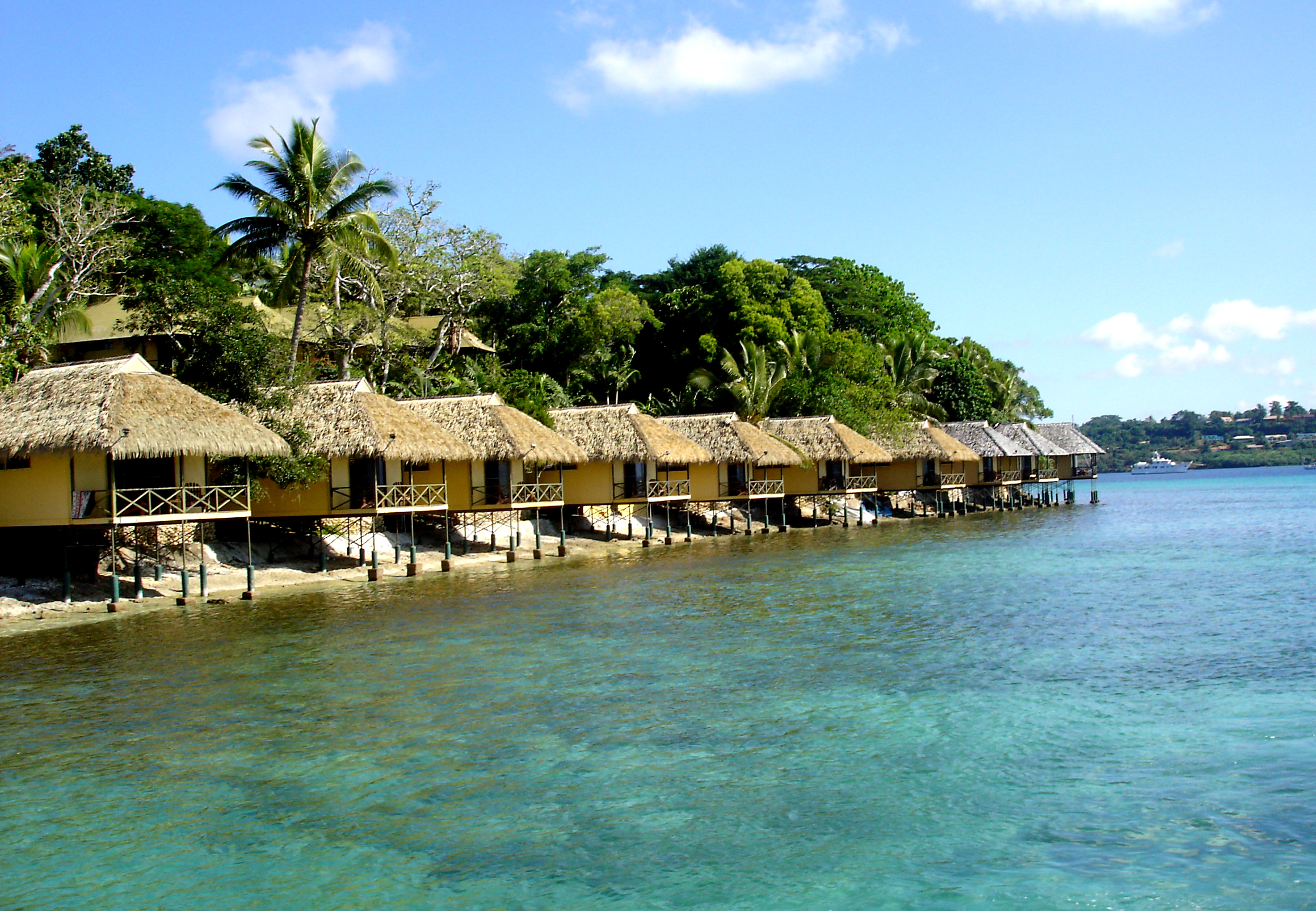 Tourist bungalows on Iririki island, Vanuatu